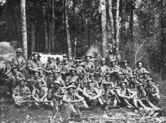 Group portrait of 9 Platoon, A Company, 2/14th Infantry Battalion on the Kokoda Trail on 16 August 1942. Victoria Cross recipient Pte Bruce Steel Kingsbury is in the first row.